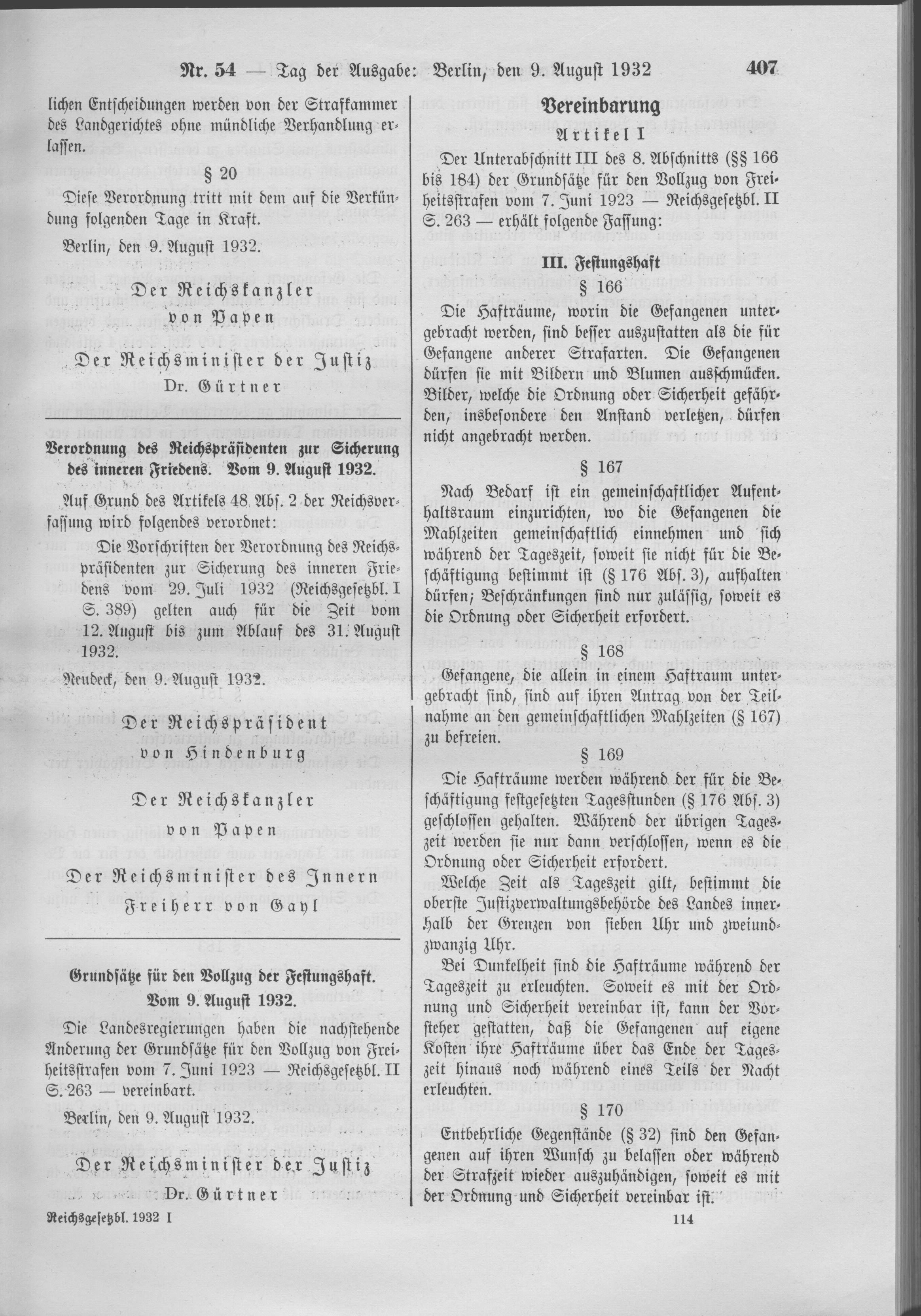 Scan from the Imperial Law Gazette of Germany, 1932, part 1